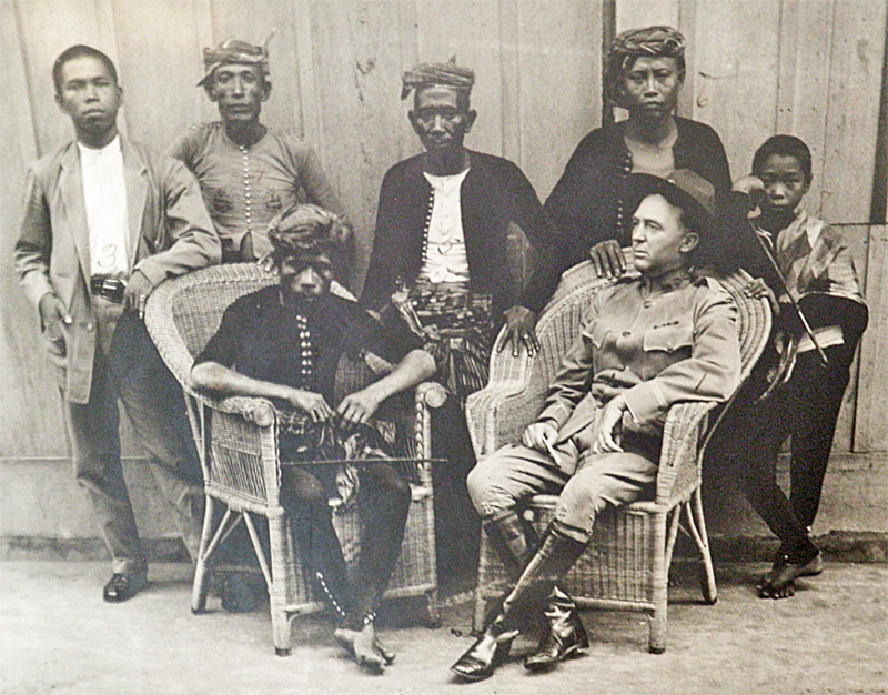 Datu Amil, an influential leader of the Tausūg people with Captain W.O. Reed, US 6th Cavalry Regiment during the American Moro Campaigns.